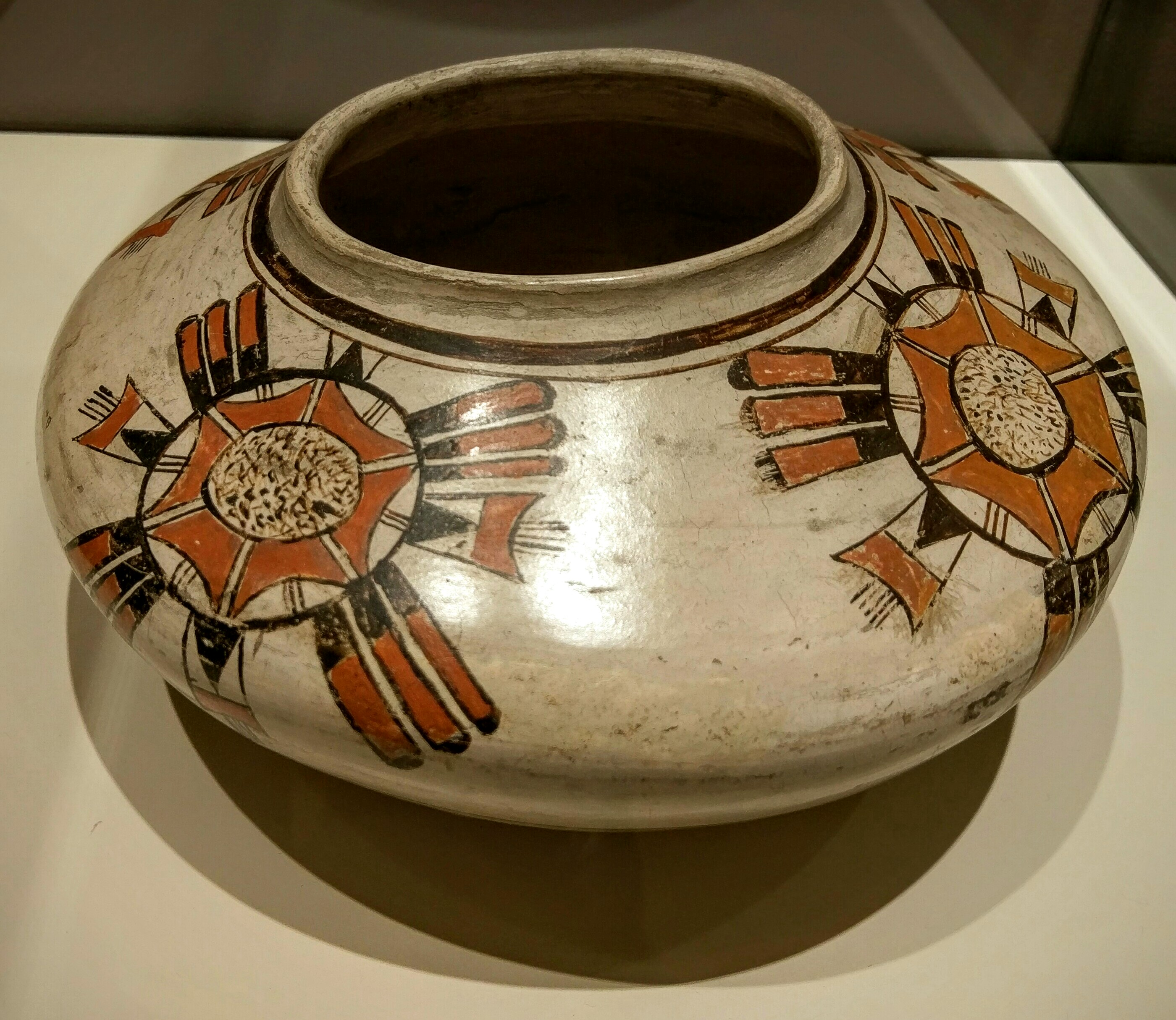 A seed jar by Nampeyo of Hano, approximately 1905, at the Crocker Art Museum. Photo by Jim Heaphy.